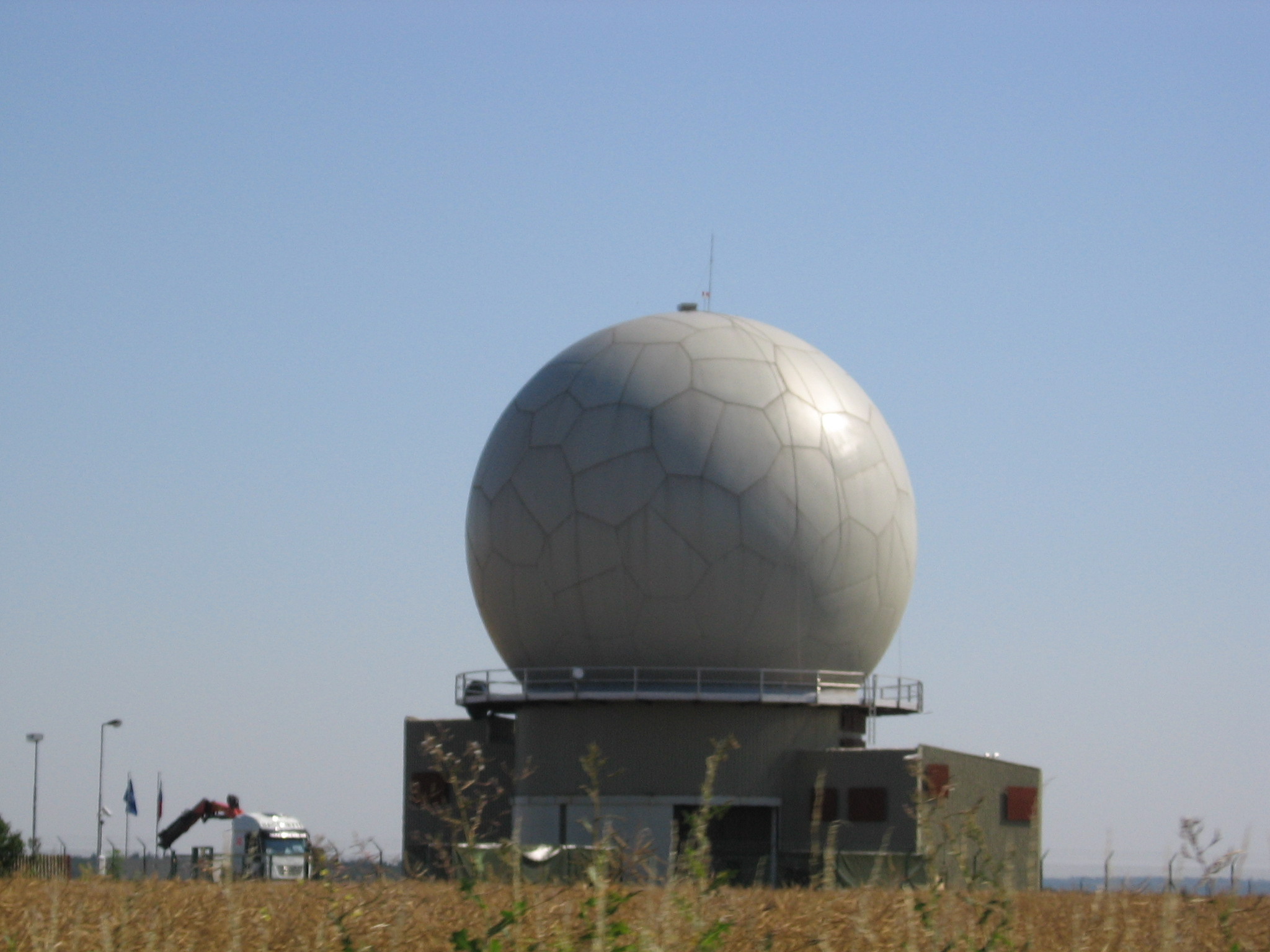 Radar near town Čáslav, Central Bohemia, Czech Republic